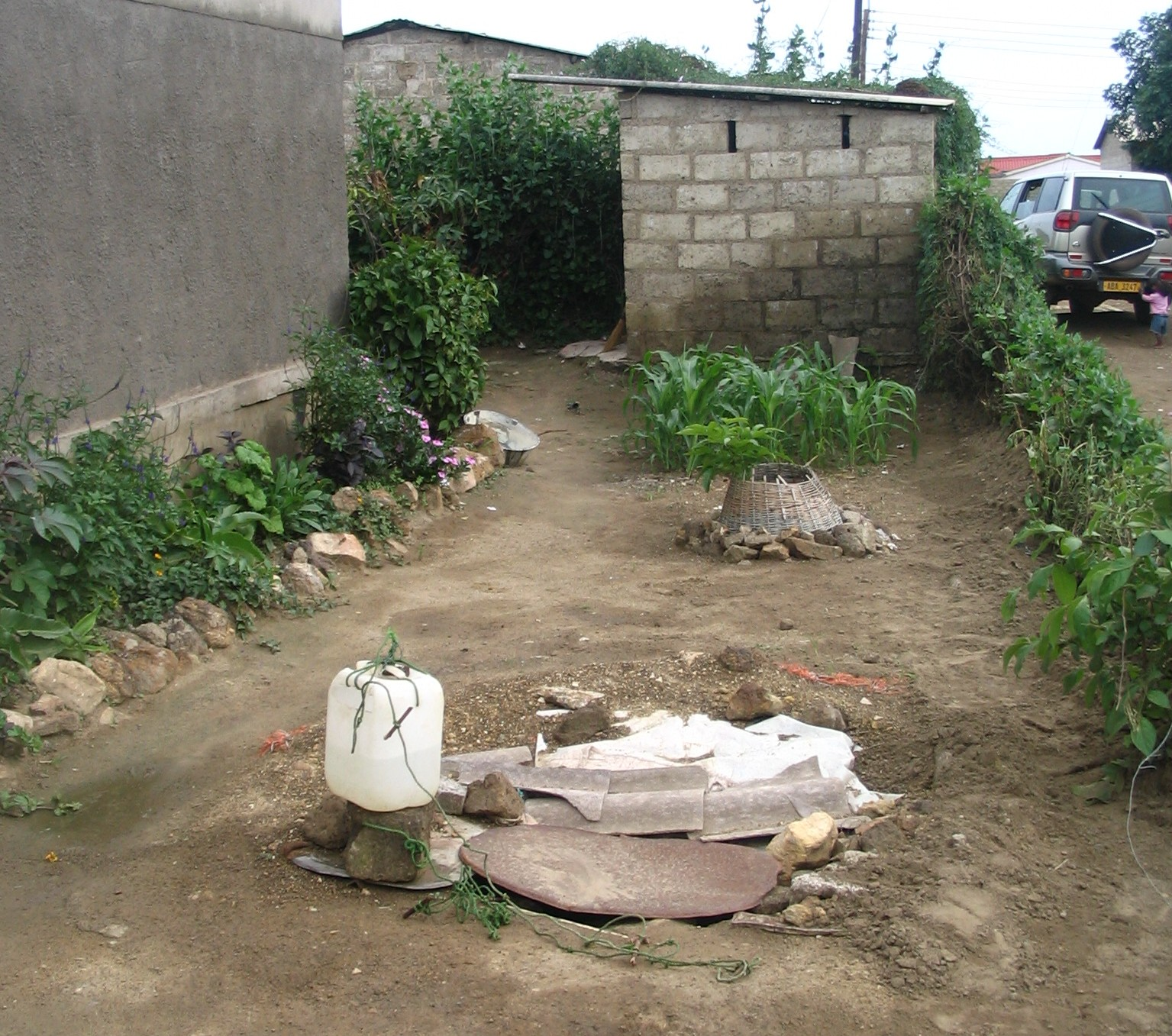 Photo by Kennedy Mayumbelo in 2006. See also his MSc thesis for which the photos were taken